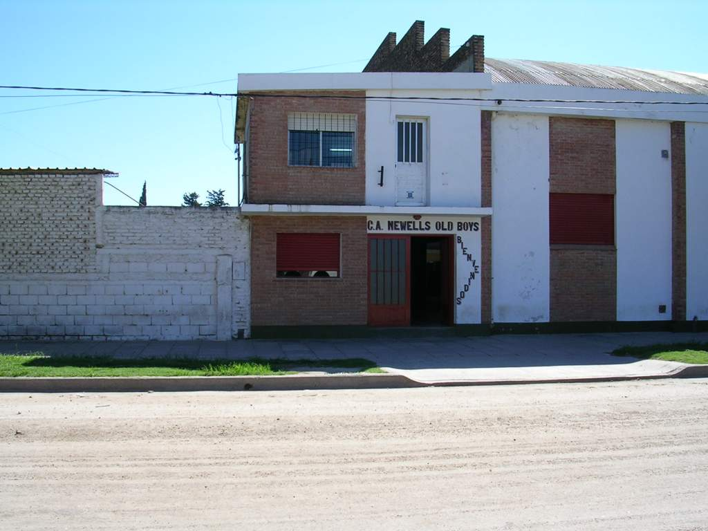 Fachada Club Atlético y Biblioteca Newell's Old Boys